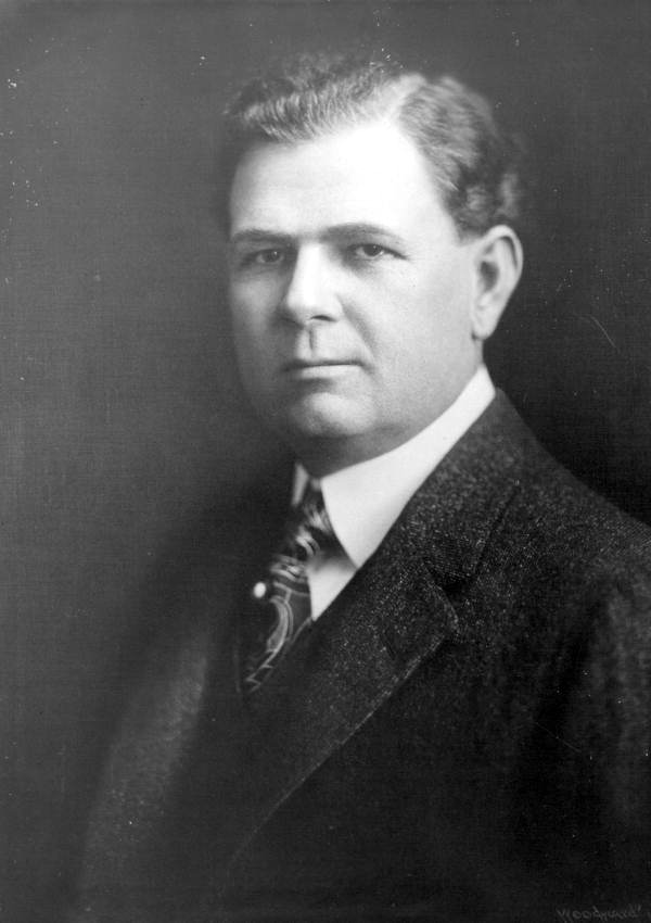 Park Trammell (1876-1936), 21st Governor of Florida